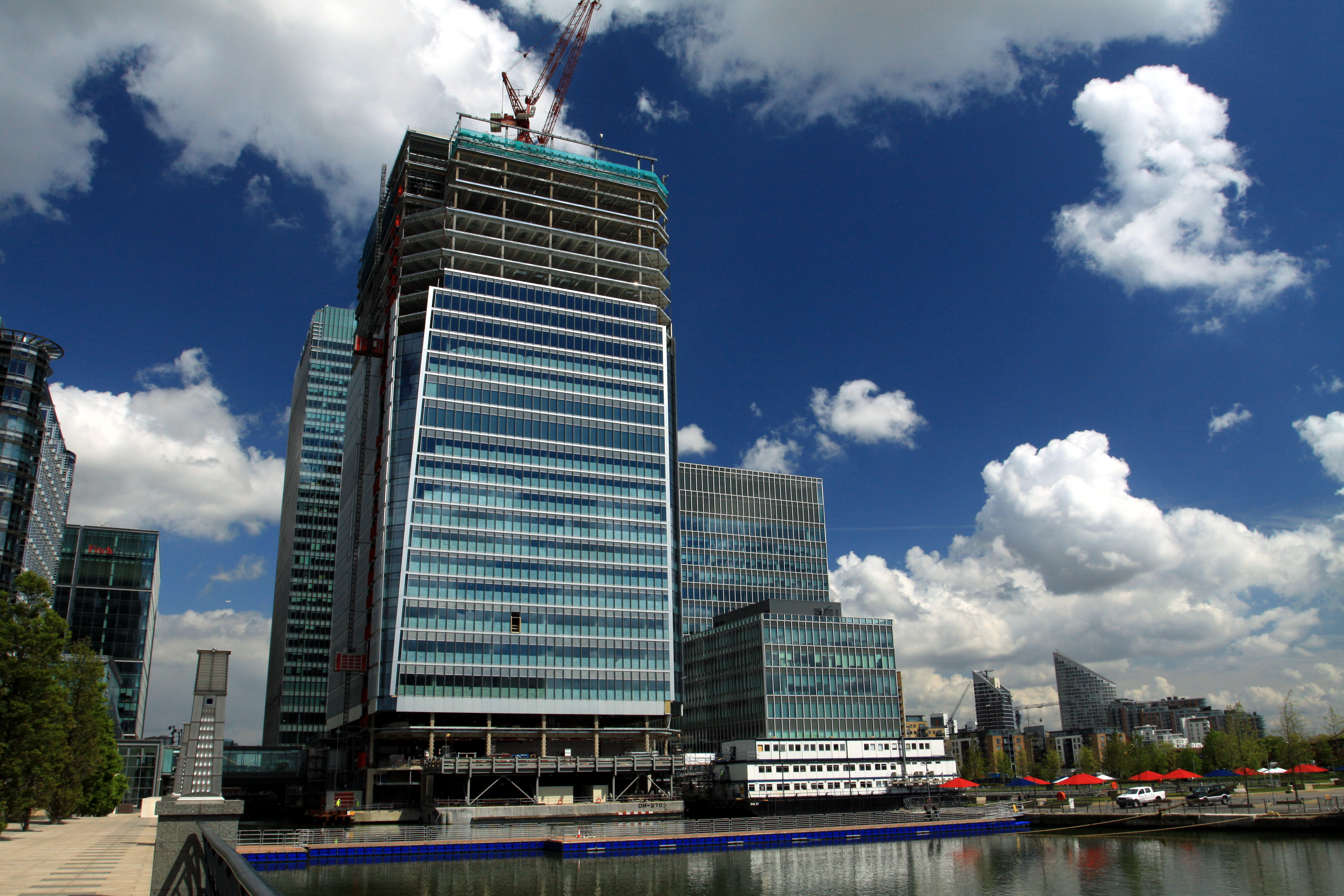 Construction of skyscraper 25 Churchill Place in the London Borough of Tower Hamlets, London, England, Great Britain The making of this file was supported by Wikimedia UK.